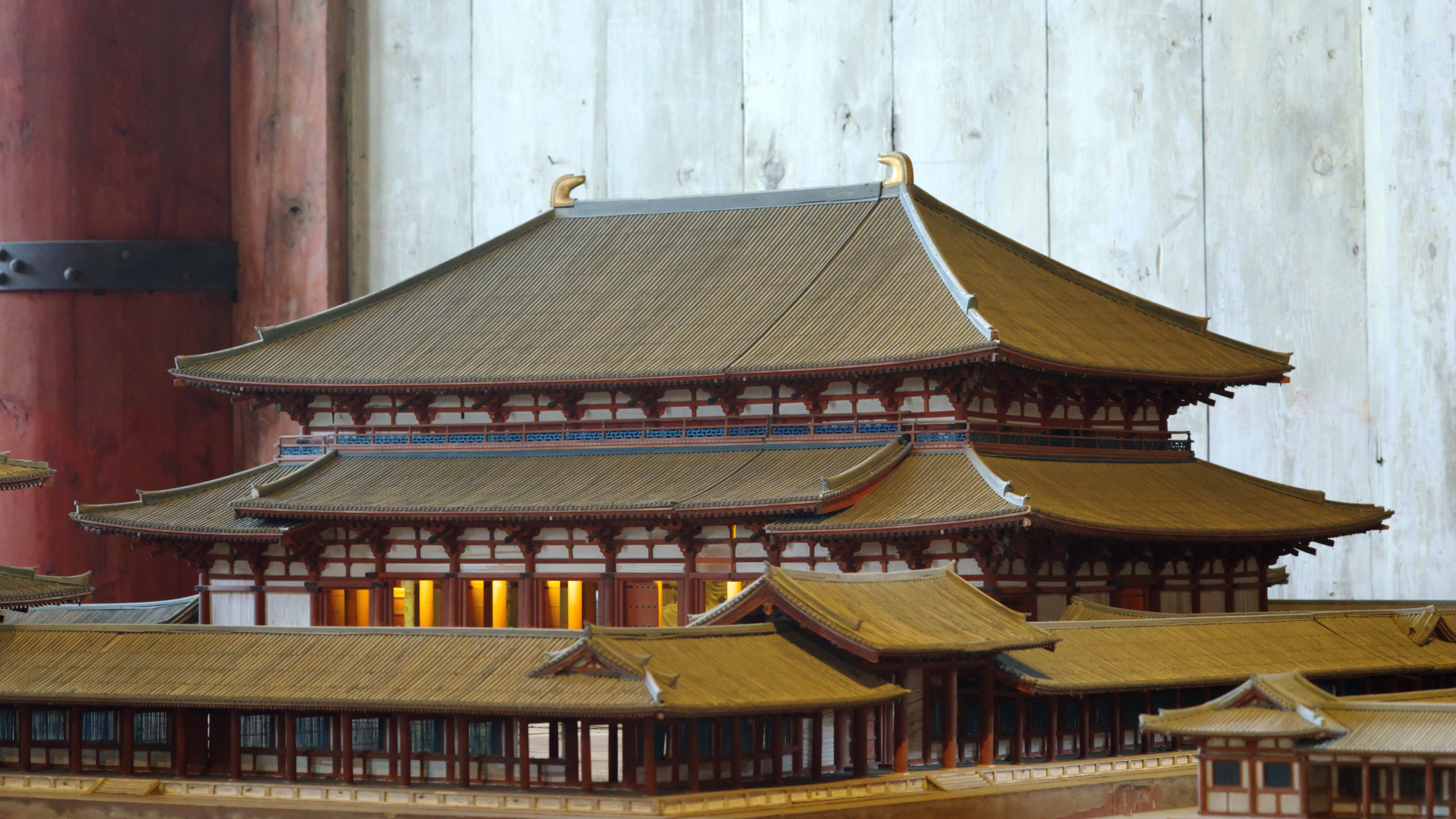 Model of Todaiji Kondo of its foundation. Designed by Shun'ichi Amanuma.